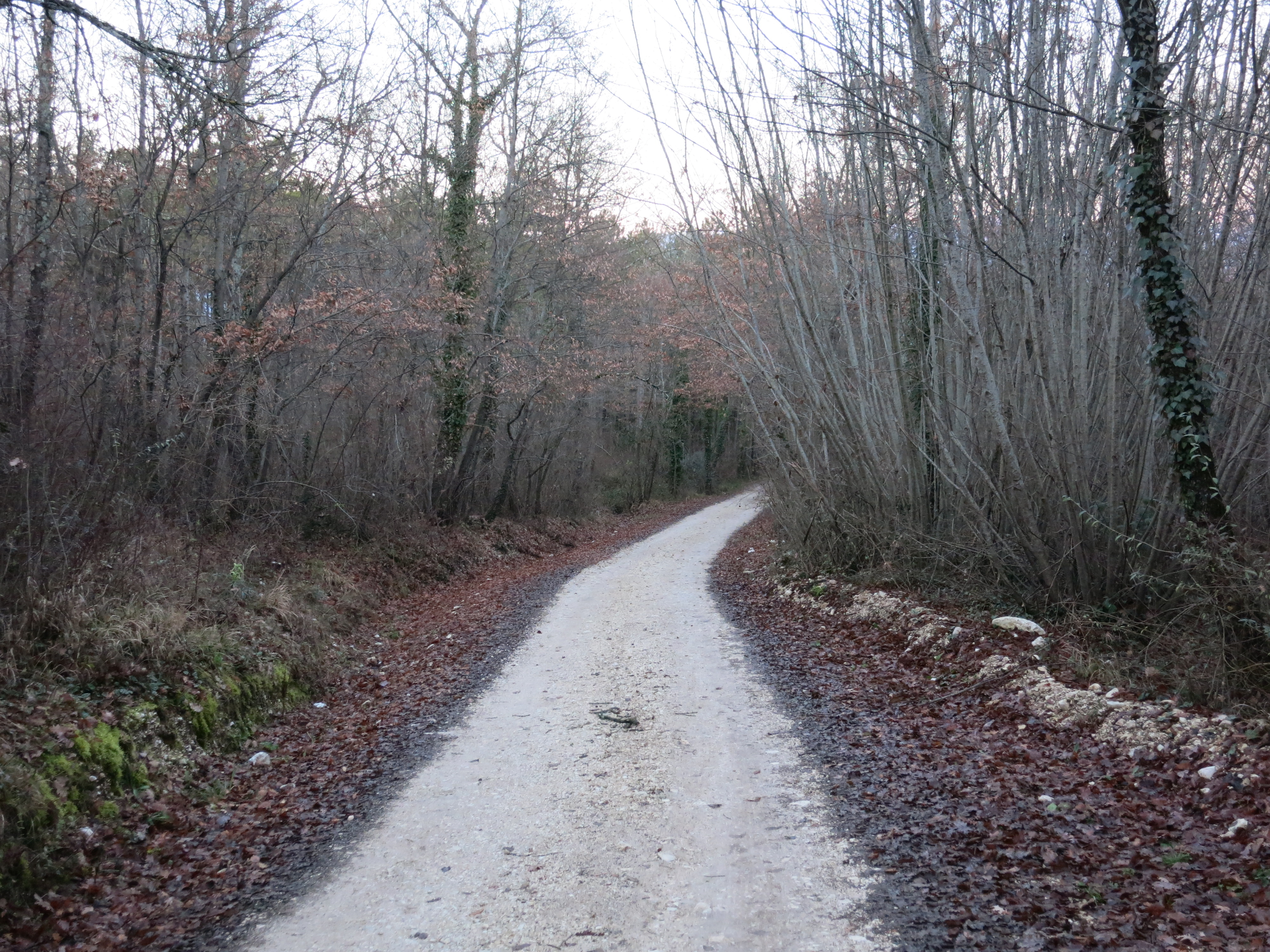 San Pastore Abbey - province of Rieti (Lazio, Italy)